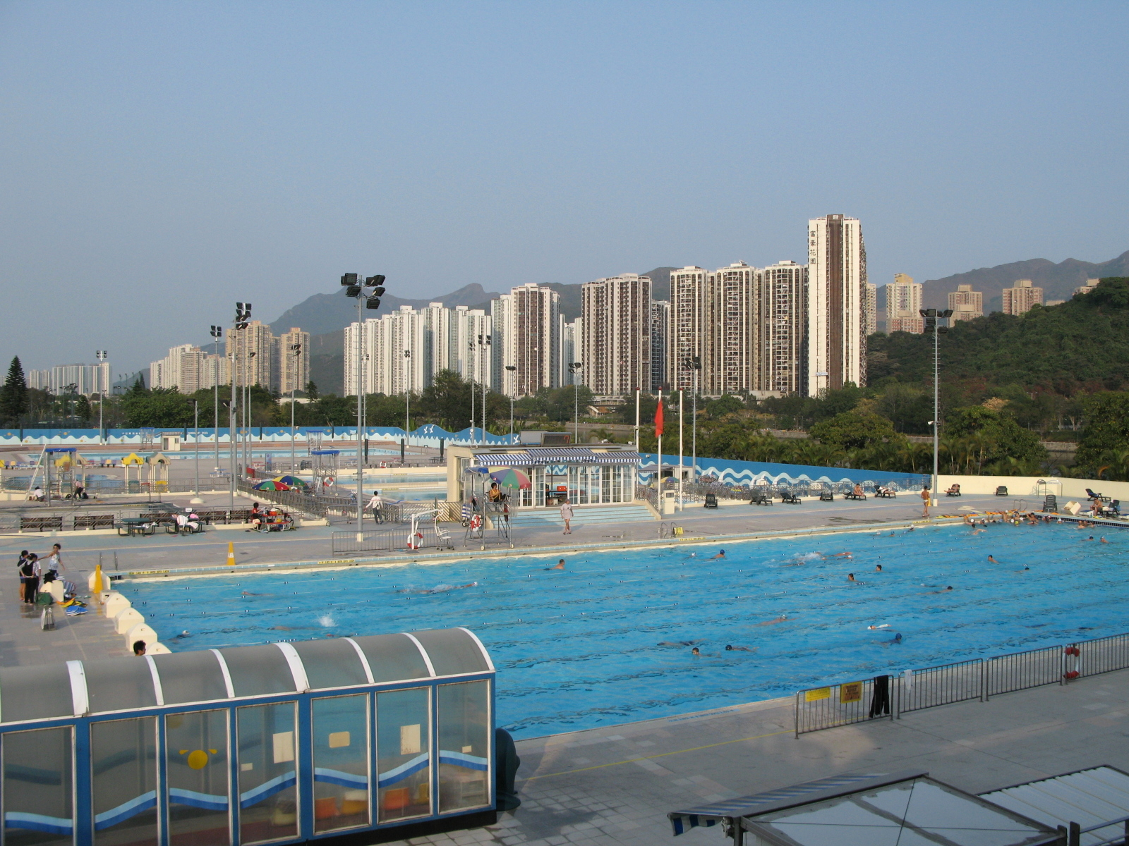 HK Sha Tin Jockey Club Swimming Pool Main Pool